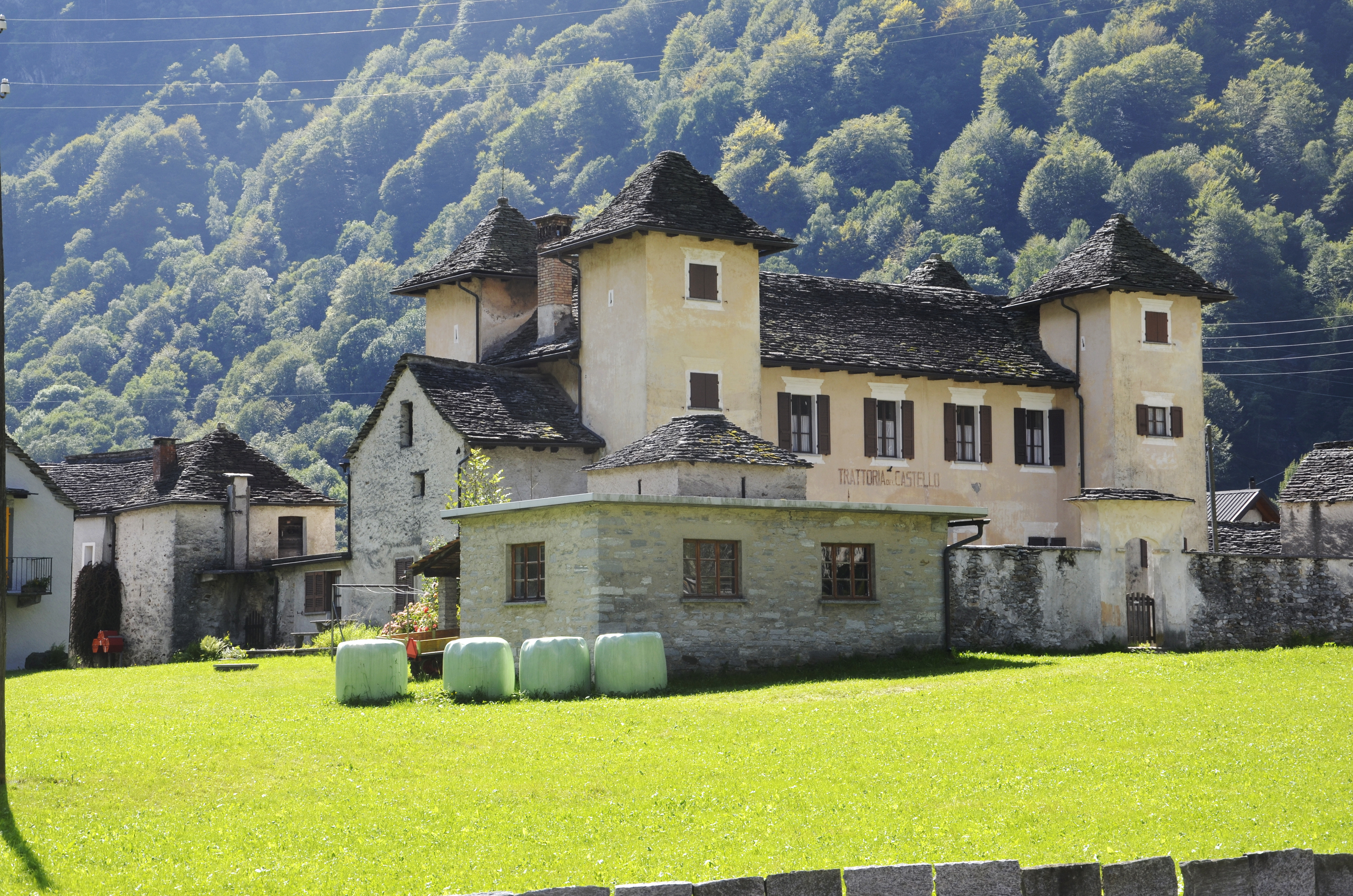 Castello dei Marcacci